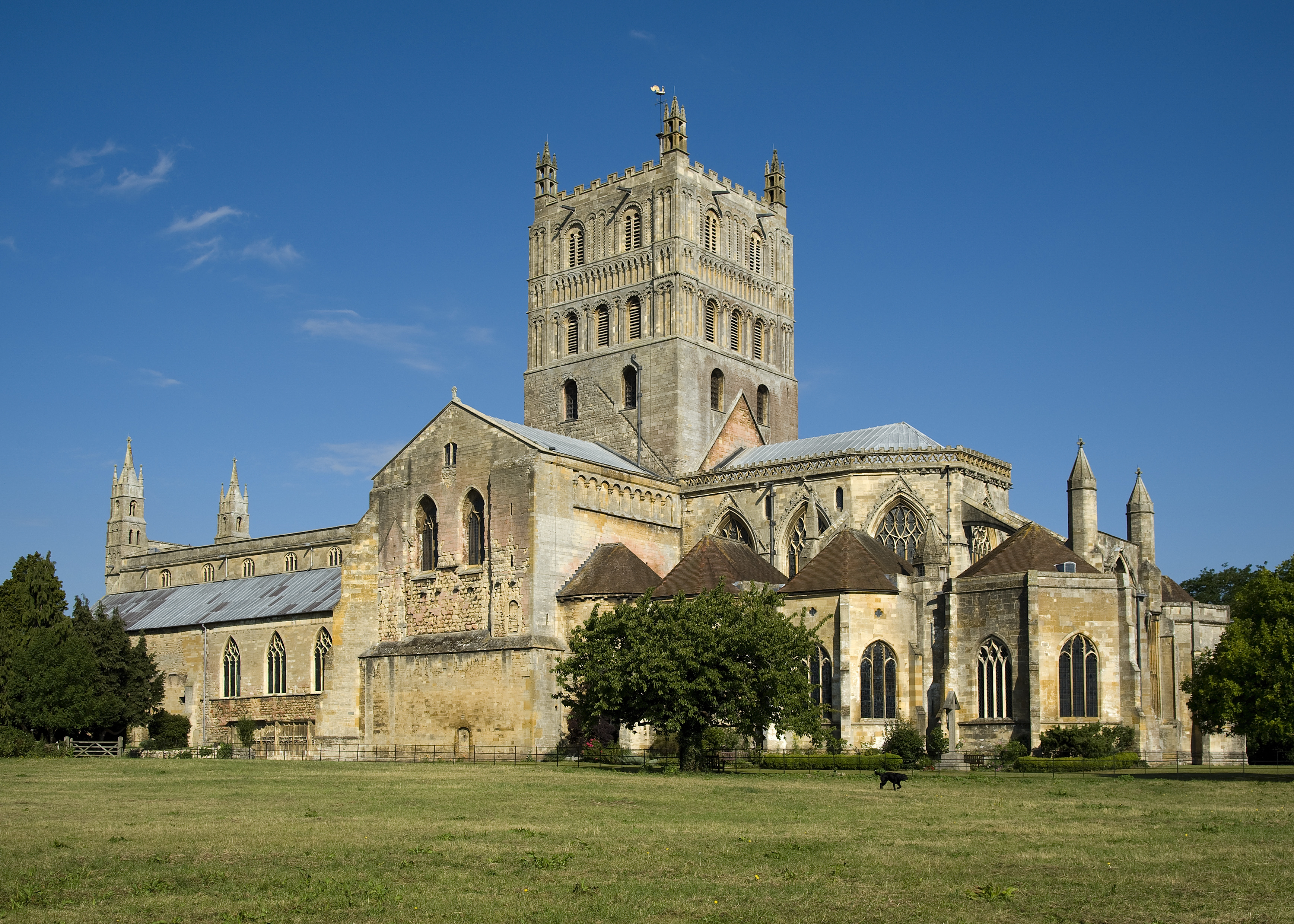 Tewkesbury Abbey was founded in 1087; however, building of the present structure seen here did not start until 1102. Built to house Benedictine monks, the Abbey was was consecrated in 1121 (Norman era).